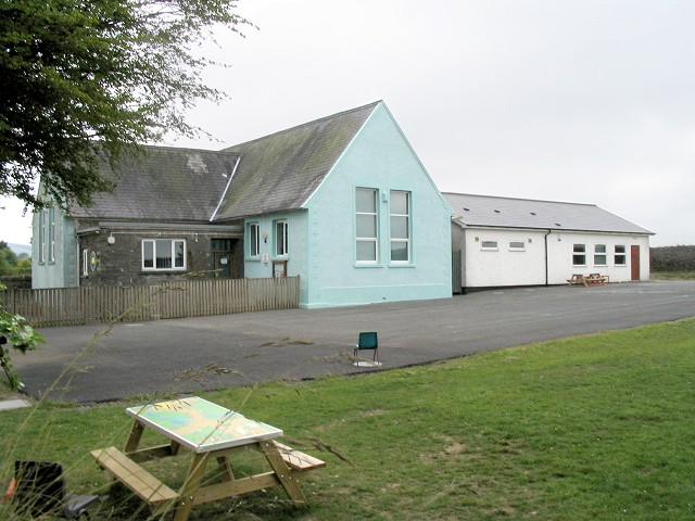 Tegryn School. You can't miss it in that shade of blue.